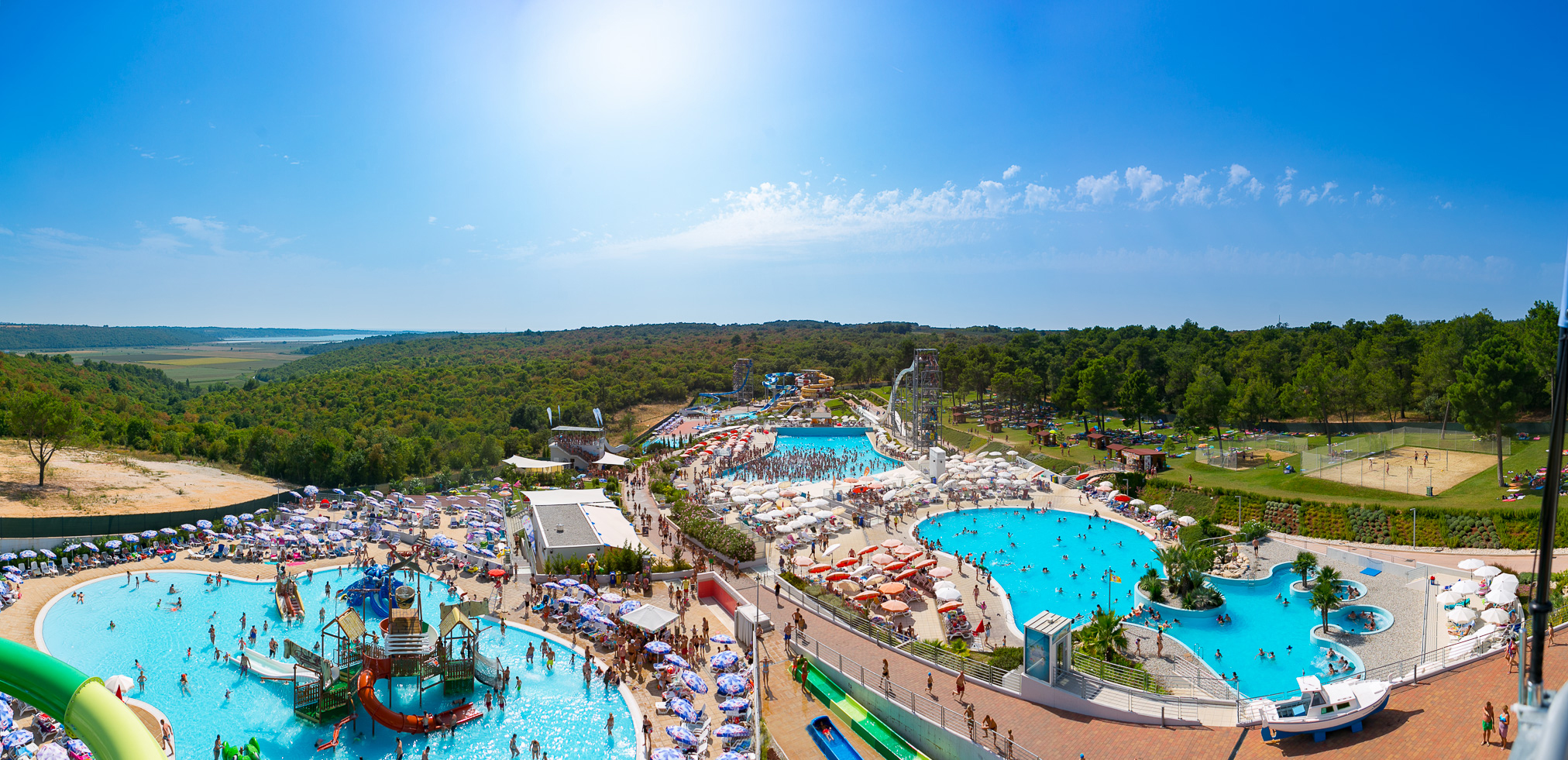 Istralandia Aquapark